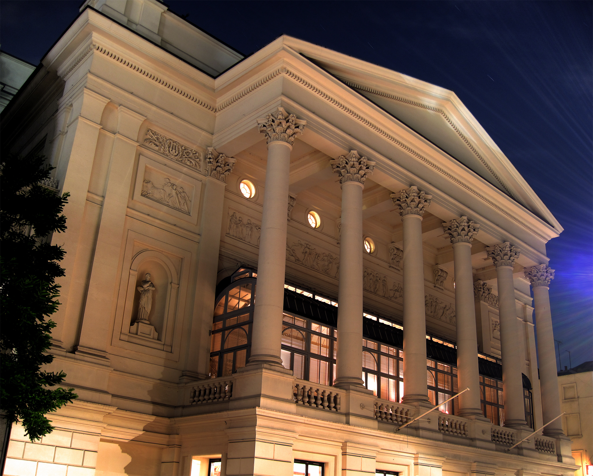 The Royal Opera House in the London district of Covent Garden. The current building opened in 15 May 1858. It's the third building on the site, which serves the same purpose since the 1730s.